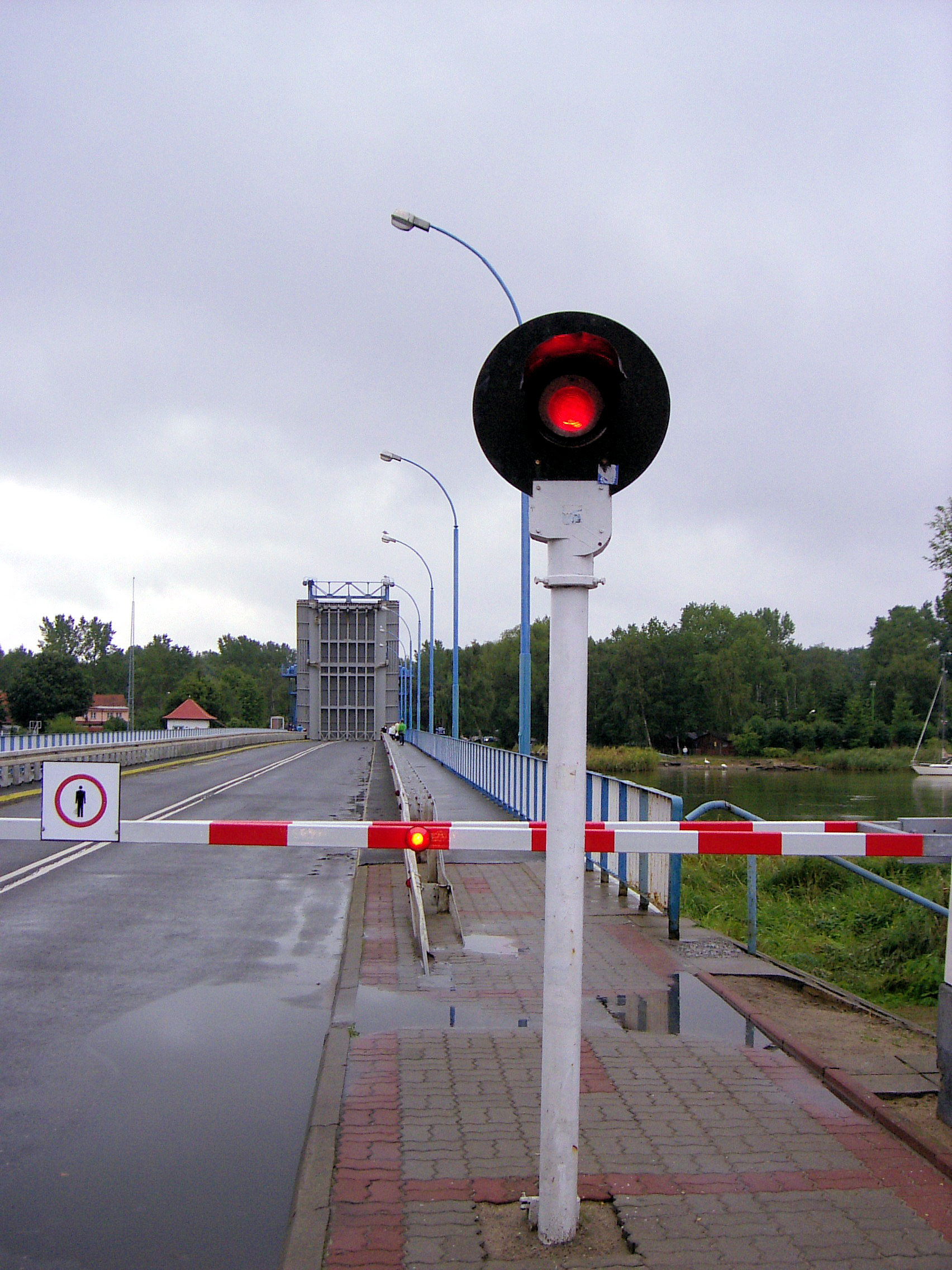 Author: Andrzej19 Bridge in Dziwnow (Poland).